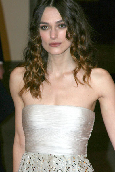 Keira attends the BAFTA'S 2008